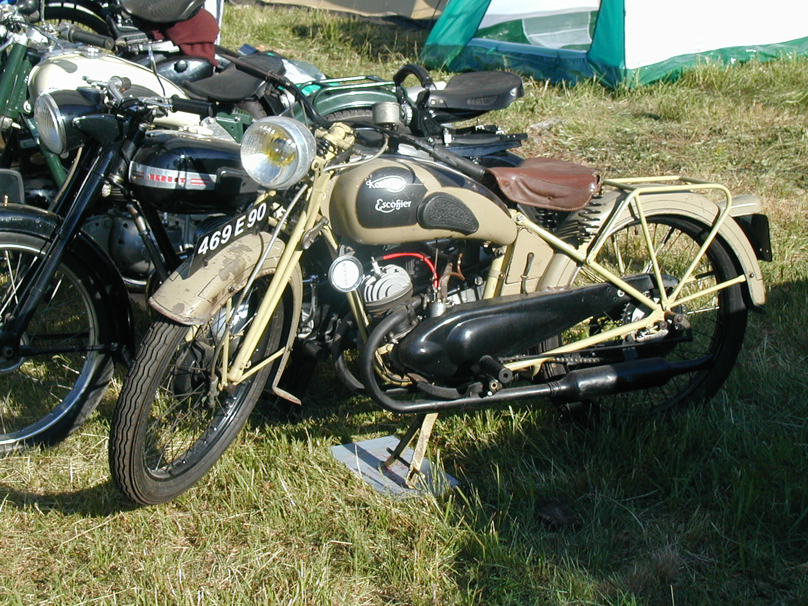 A Koehler-Escoffier motorcycle Picture: Gérard Delafond